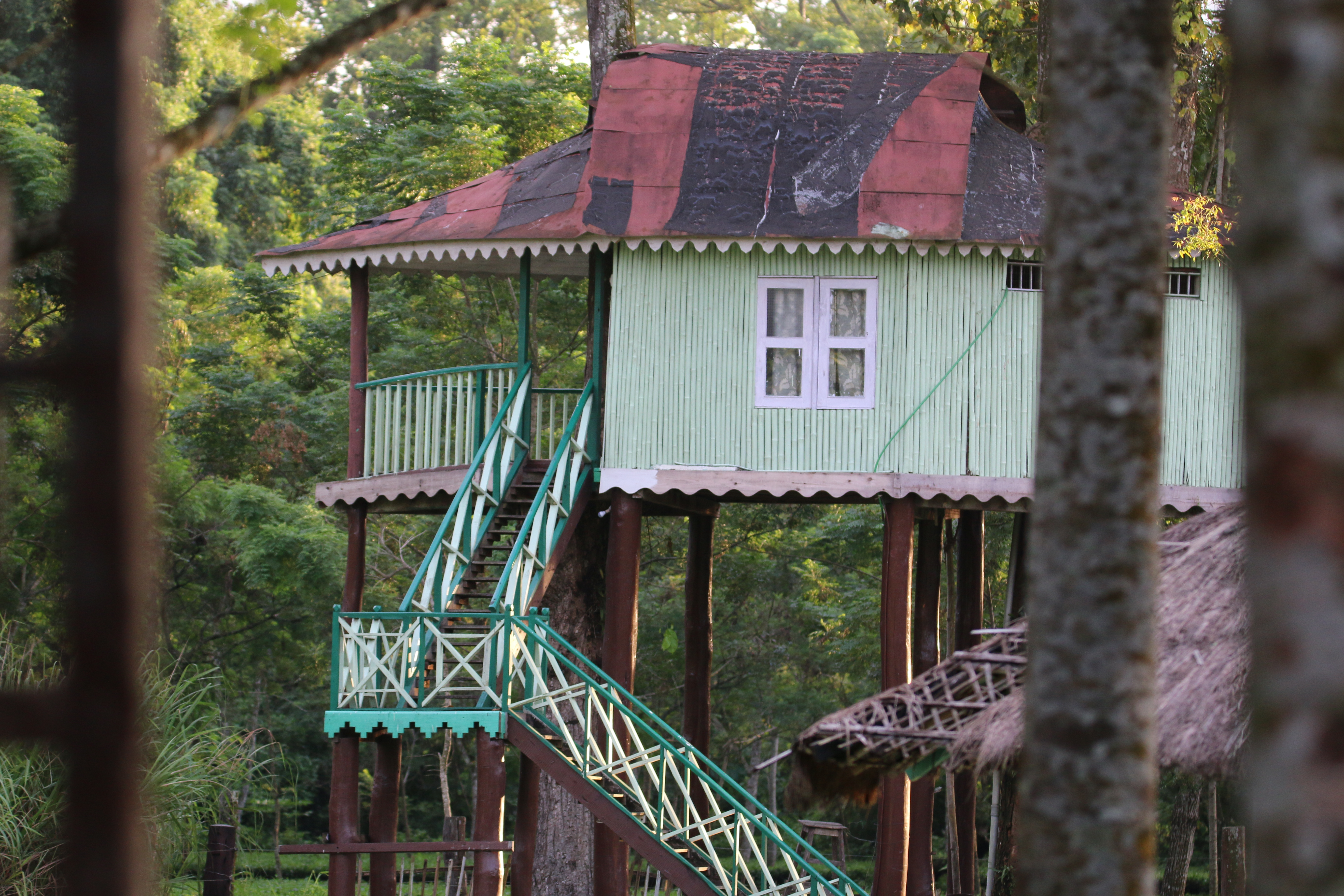 Tree house for tourist. Now a days online booking is possible.